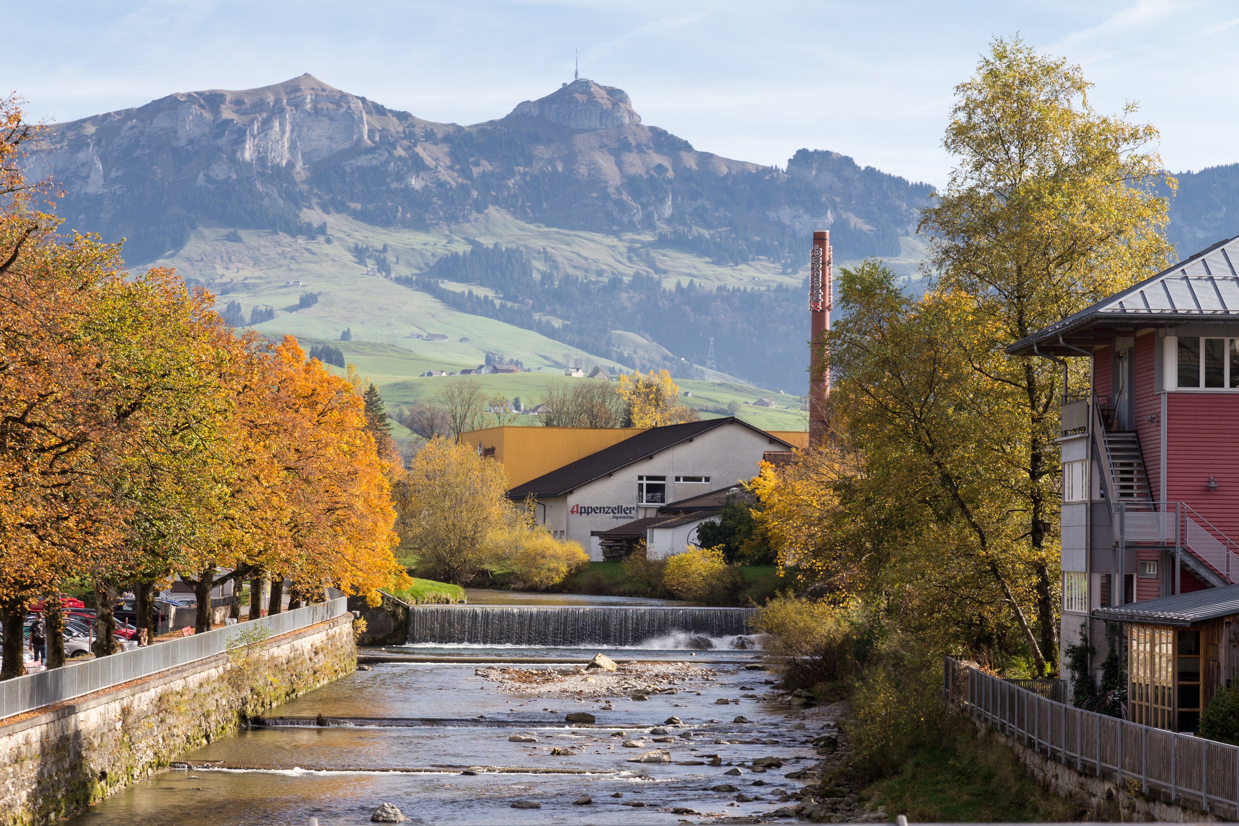 Distillery Apenzeller Alpenbitter in Appenzell, Switzerland. Mountains "Kamor" (1,751m) and "Hoher Kasten" (1,797 m) in the background